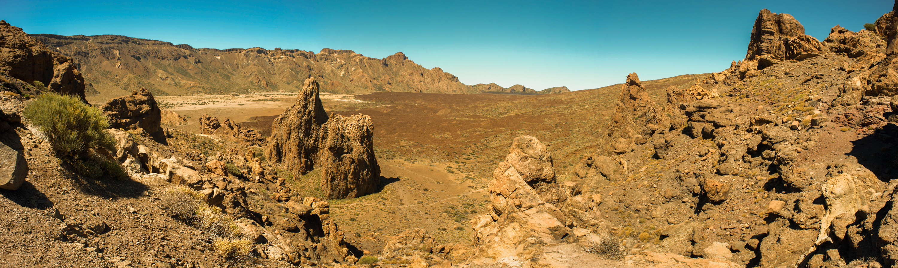 Panoramic view of the Teide National Park (World Heritage Site). Tenerife, Canary Islands, Spain, Southwestern Europe.